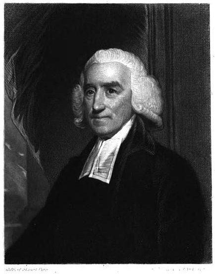 Portrait of John Lathrop